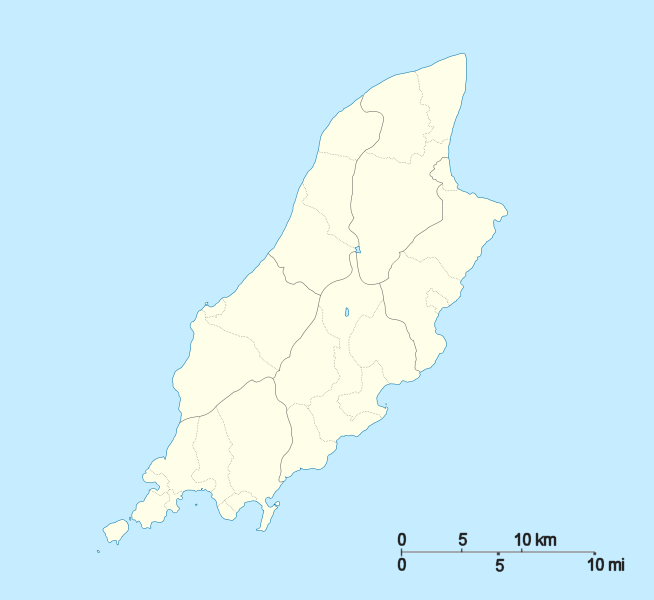 PNG format Modification (km mi distance scale added) to published by user:Sémhur under CC Generic 2.5 etc. lincense.